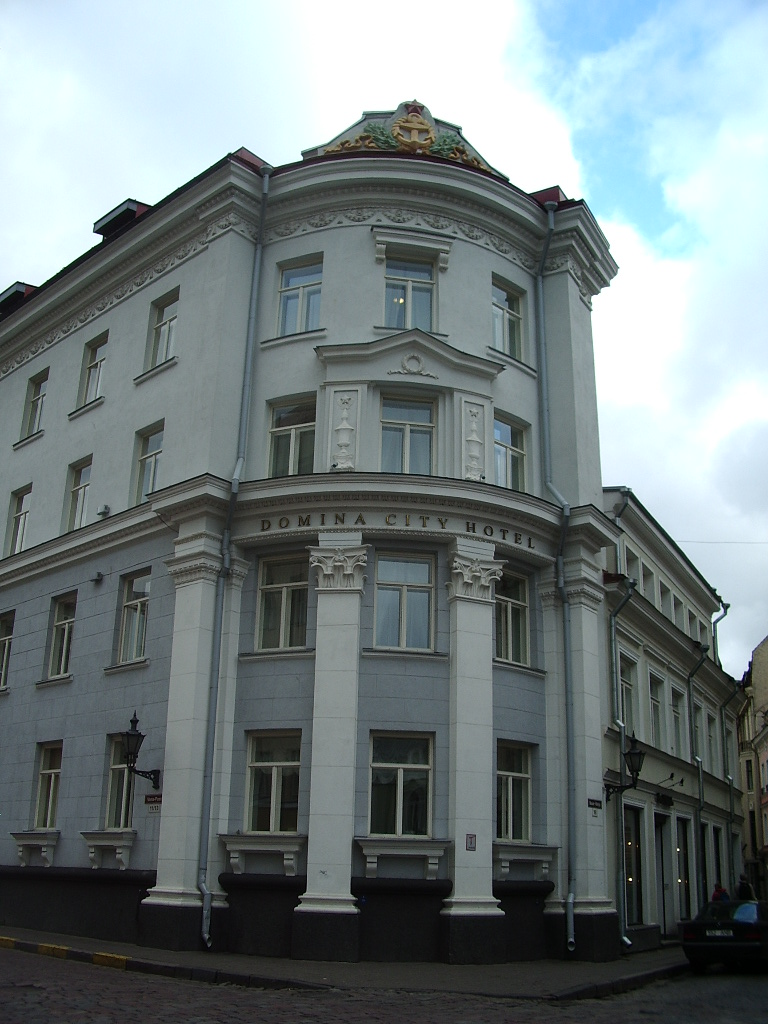 Domina City Hotel Tallinn